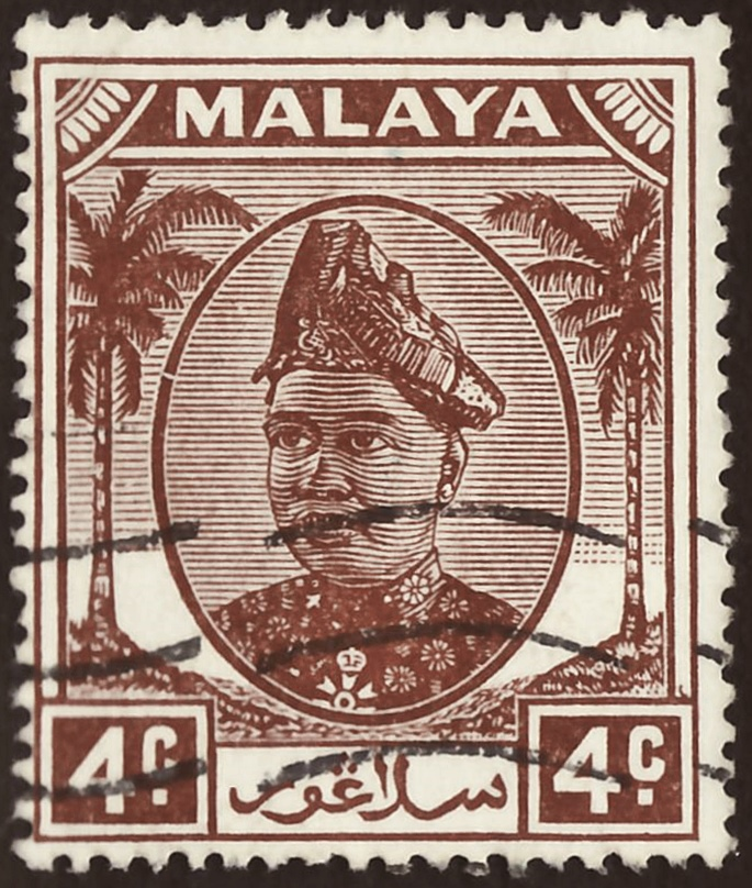 Stamp of Selangor (as one of the Federated Malay States); 1949; definitive stamp of the so-called "Coconut Issue"; portrait of Sultan Sir Hisamud-din Alam Shah ibni Al-marhum Sultan Alauddin Sulaiman Shah (1898—1960) in oval flanked by two coconut palms; The Sultan wears the Sultan’s tengkolok made of handwoven songket fabric.; stamp postmarked Note: On the pictured portrait, the Sultan wears the badge of a Knights Commander of the Order of Saint Michael and Saint George, awarded to him in 1938, together with the Imperial State Crown of the United Kingdom of Great Britain and Northern Ireland as augmentation to this order. Stamp: Michel: No. 56; Yvert et Tellier: No. 50; Scott: No. 83 Color: brown Waltermark: Selangor No. 3 (= Malaysia No.4) (multiple St.Edwards'crown over convoluted character "CA") Nominal value: 4 C (Cents) Postage validity: from 12 September 1949 until ? Stamp picture size (printed area): 19.0 x 22.5 mm